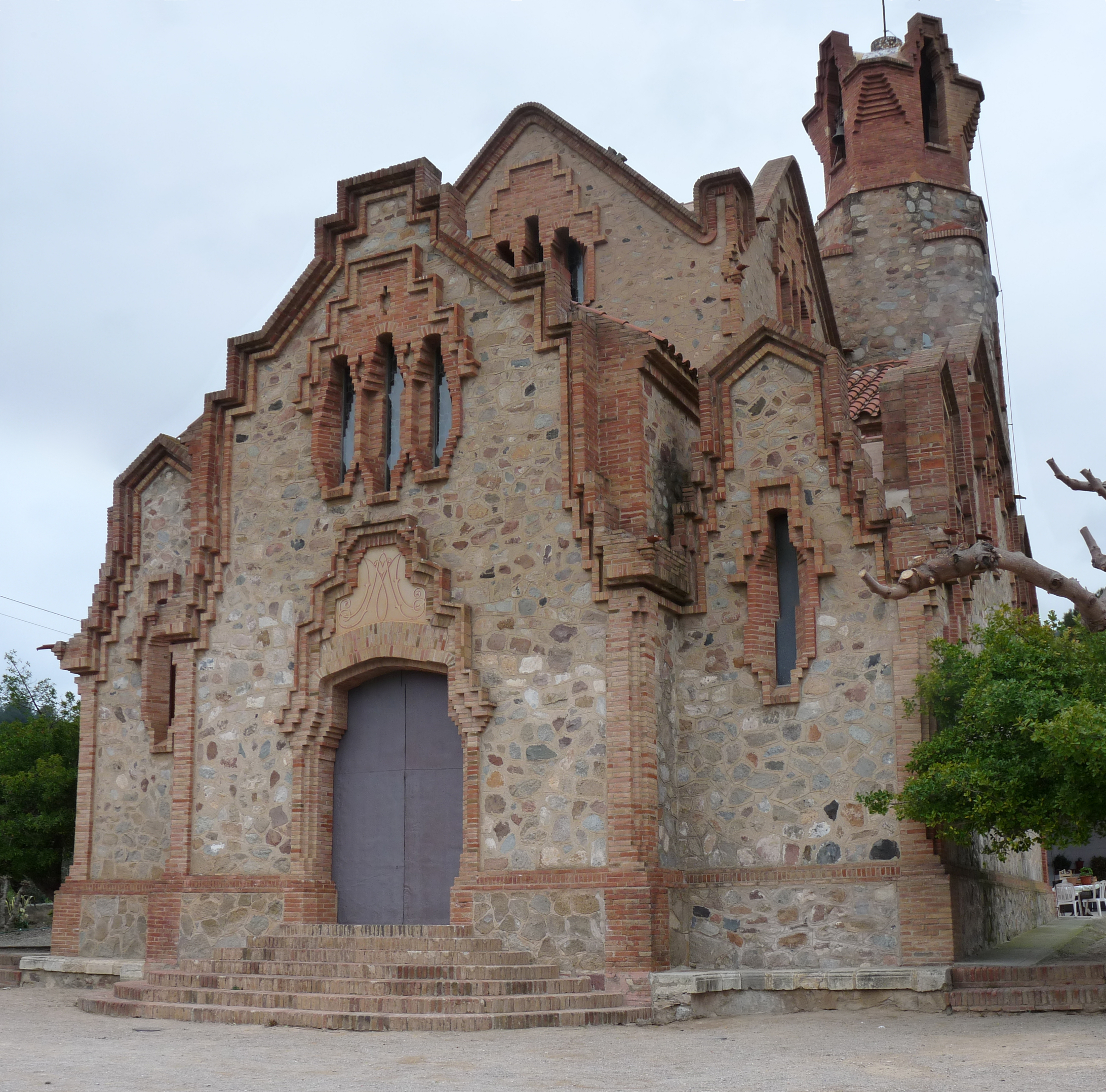 Hermitage of Mare de Déu de la Riera, les Borges del Camp